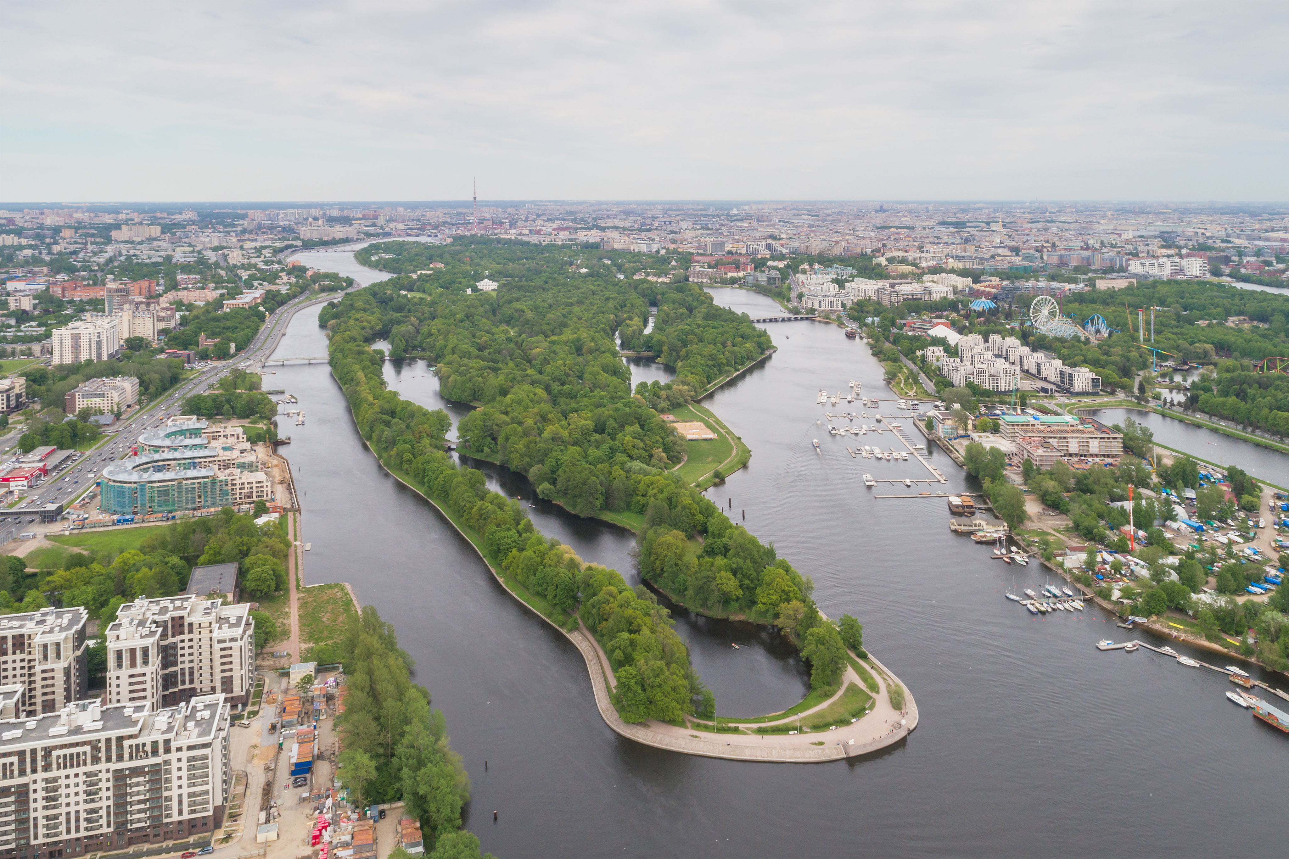 Aerial photo of Elagin Island in Saint Petersburg (Russia).